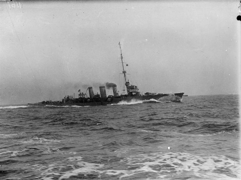 British cruiser HMS Arethusa at speed, 1914.